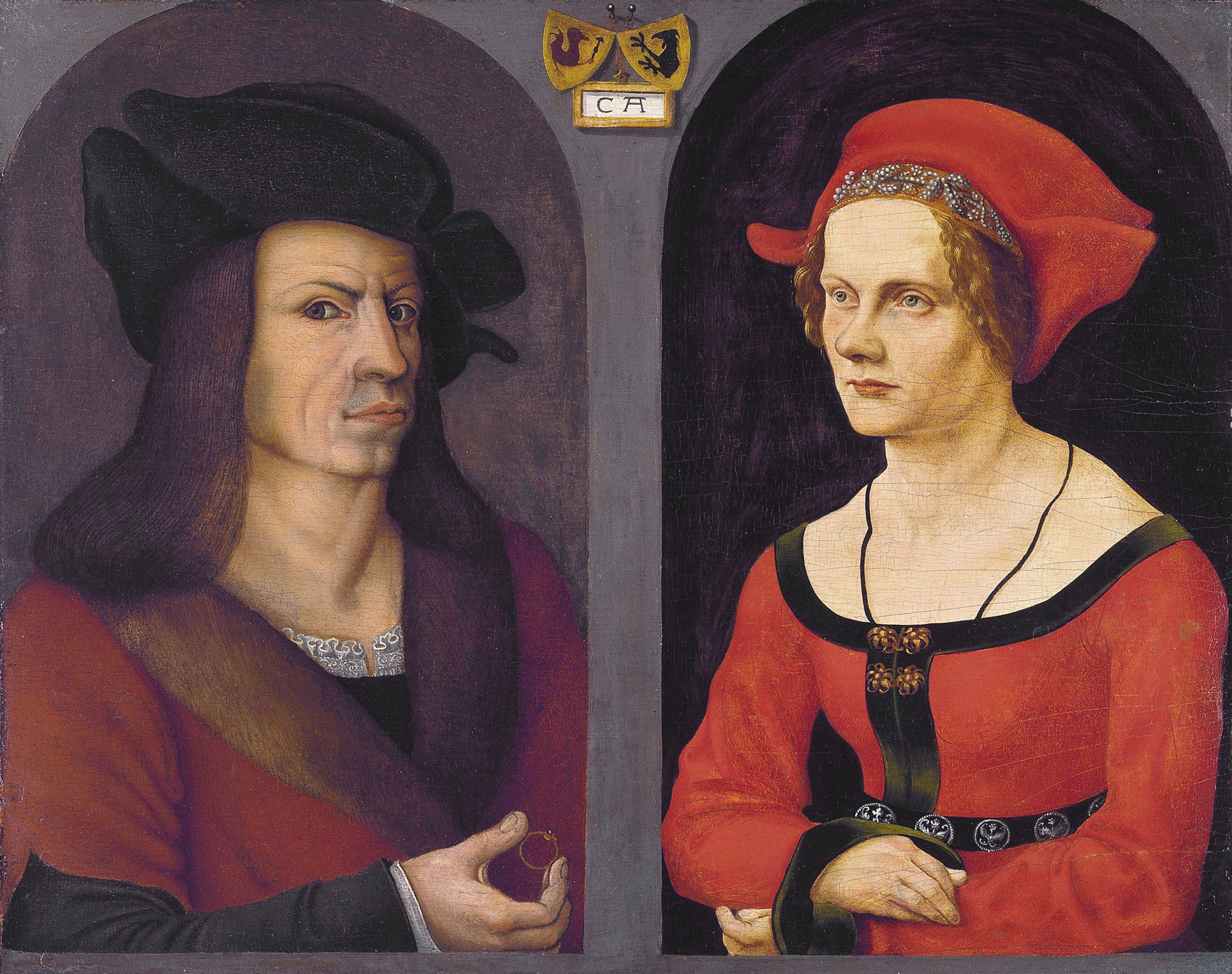 15th century fashion